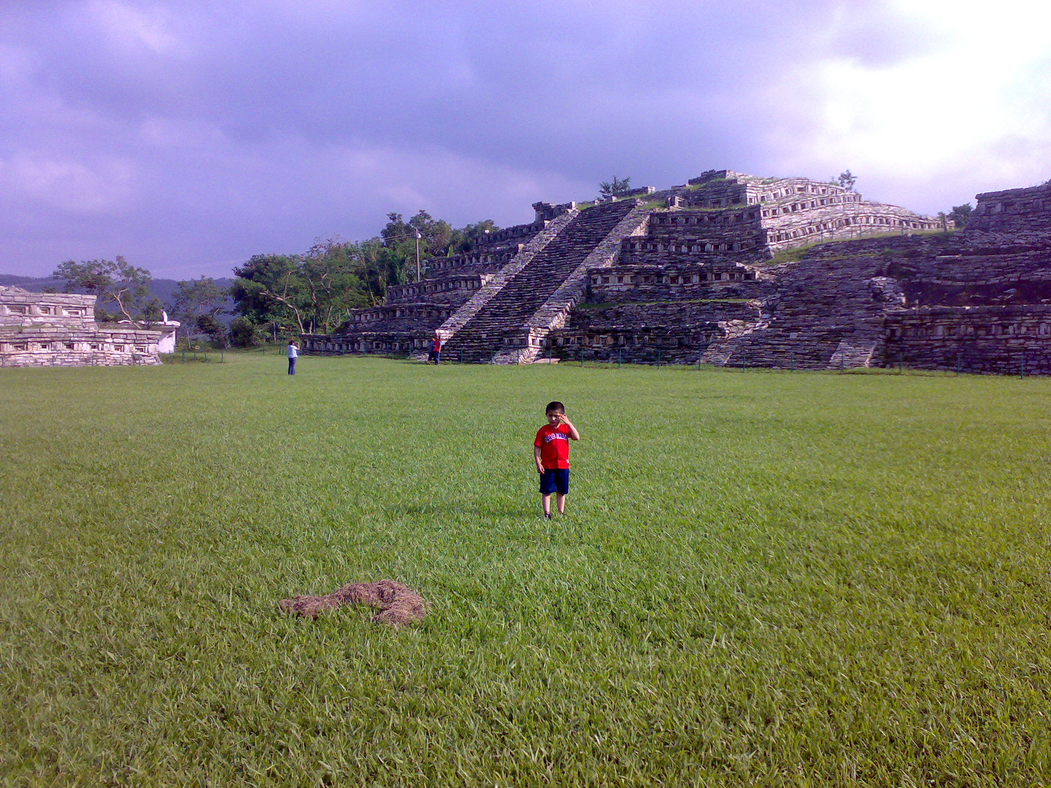 A image of the ruins in Yohualichan